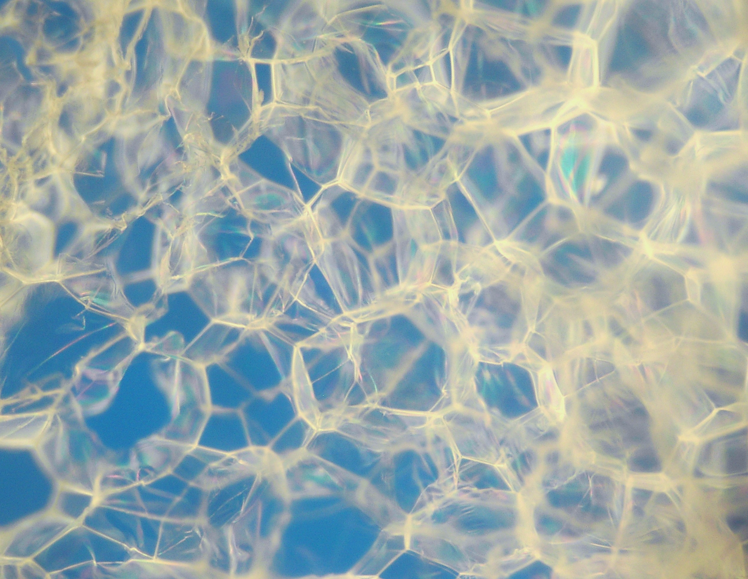 Styrofoam, 200x Enlargement with Polfilter